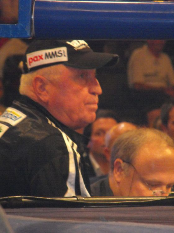 Boxing coach Ulli Wegner following a fight